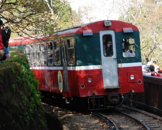 Alishan Forest Railway Train